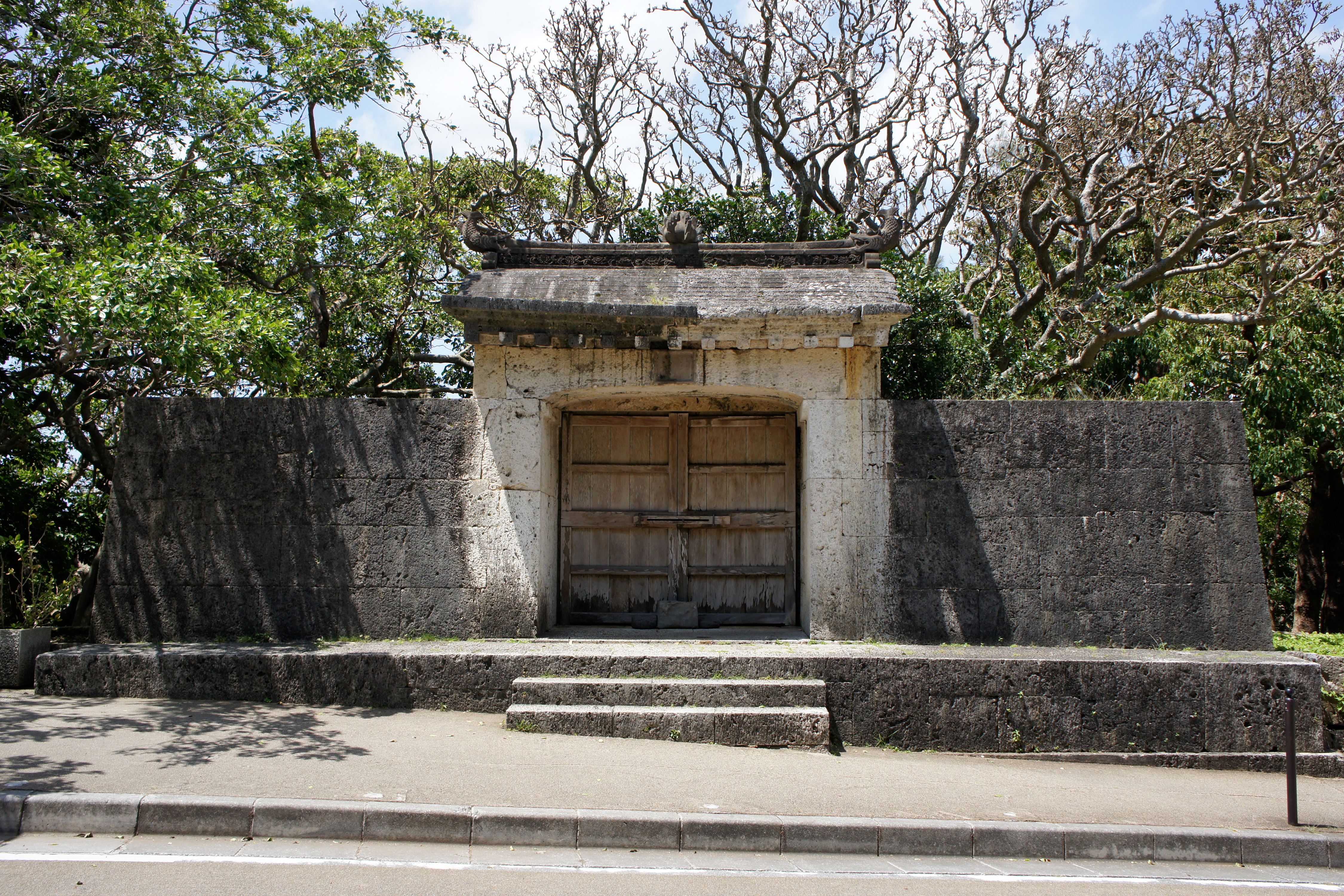 at Shuri Castle, Naha, Okinawa prefecture, Japan